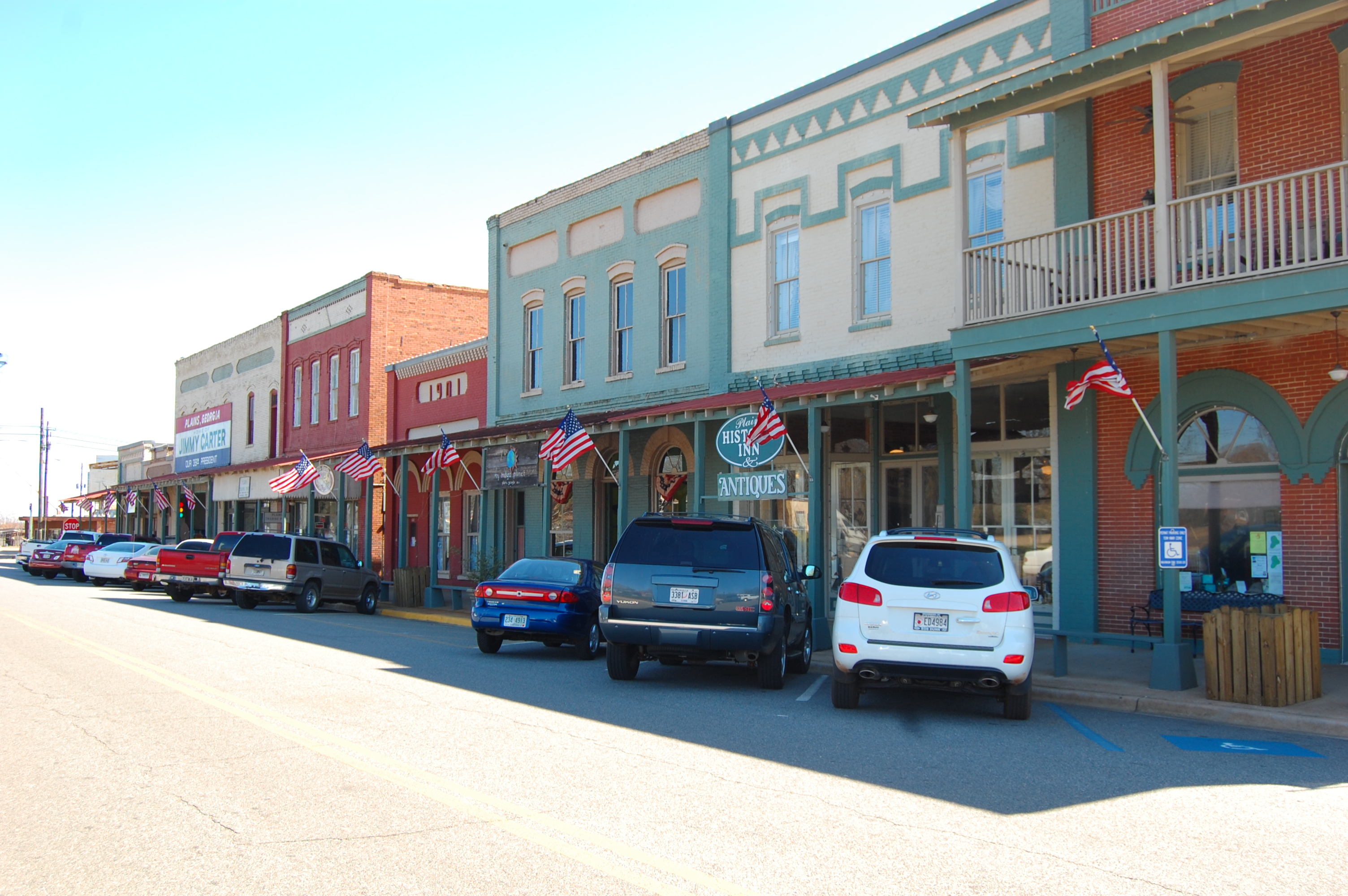 Stores in downtown Plains, Georgia